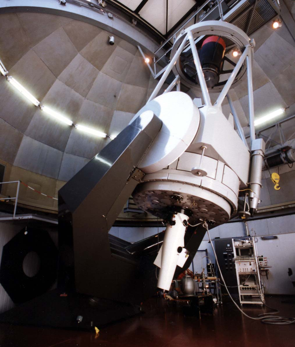 1.5m Teleskop des Leopold Figl Observatory für Astrophysik (FOA) der Universität Wien/ 1.5m Telescope of the Leopold Figl Observatory for Astropyhsics of the University of Vienna